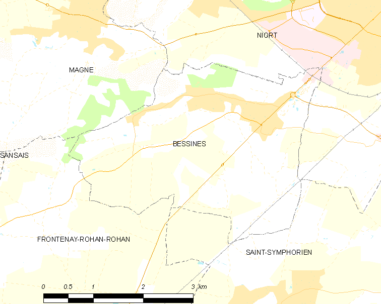 Map of French municipality Bessines